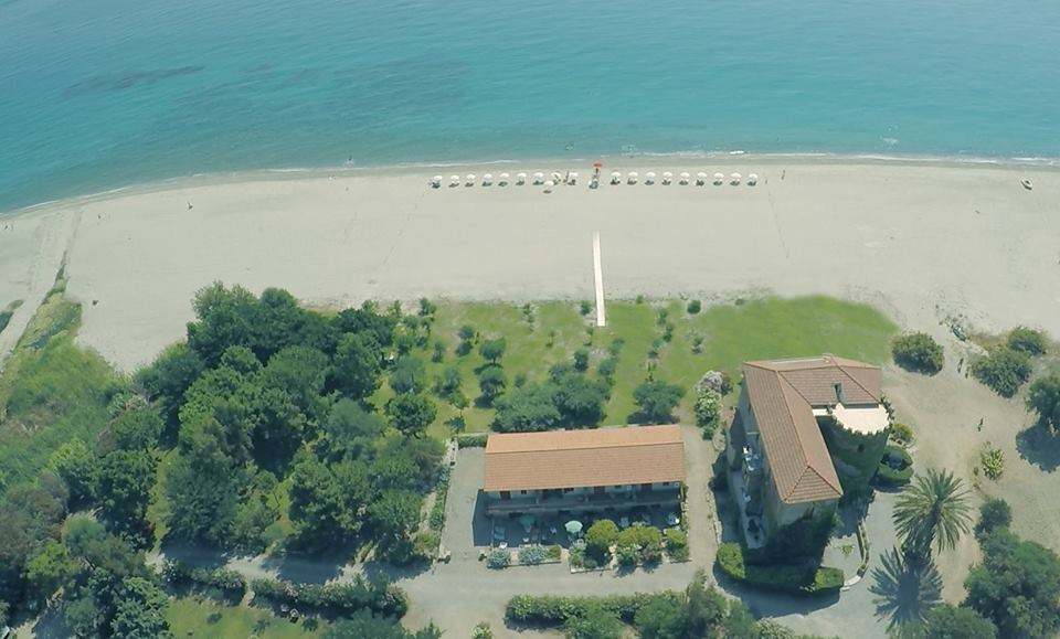 Torre S.Antonio: drone view